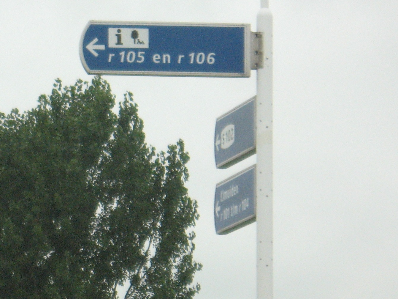 recreatieve weg